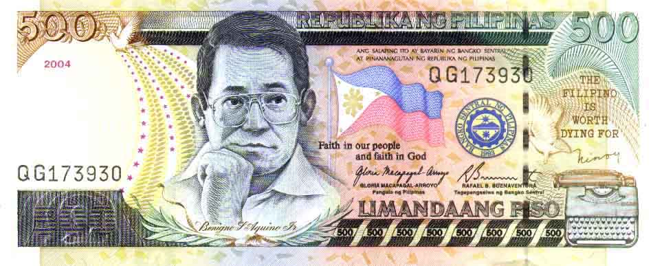 Front side of the New Design series 500-Philippine peso bill. Kapampangan: Makalarawan ya y Ninoy Aquino ketang perang papil a limang dalan (500) a pesus